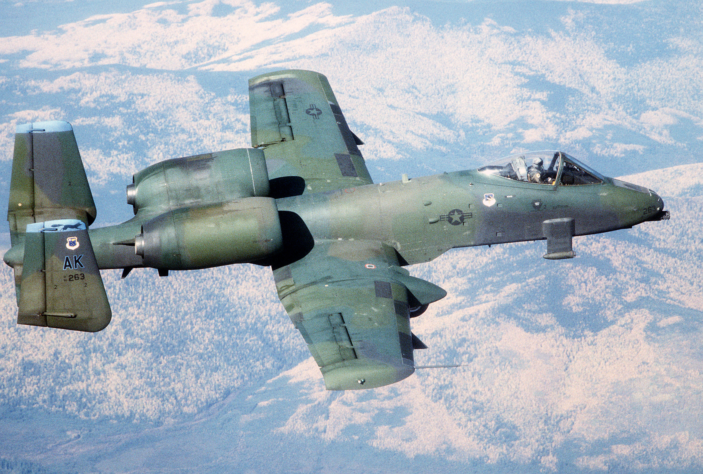 An A-10 Thunderbolt II aircraft from the 343rd Tactical Fighter Wing prepares to drop Mark 82 bombs during combined Army-Air Force live fire exercises (CALFEX IV) at the Yukon Command Training Site.